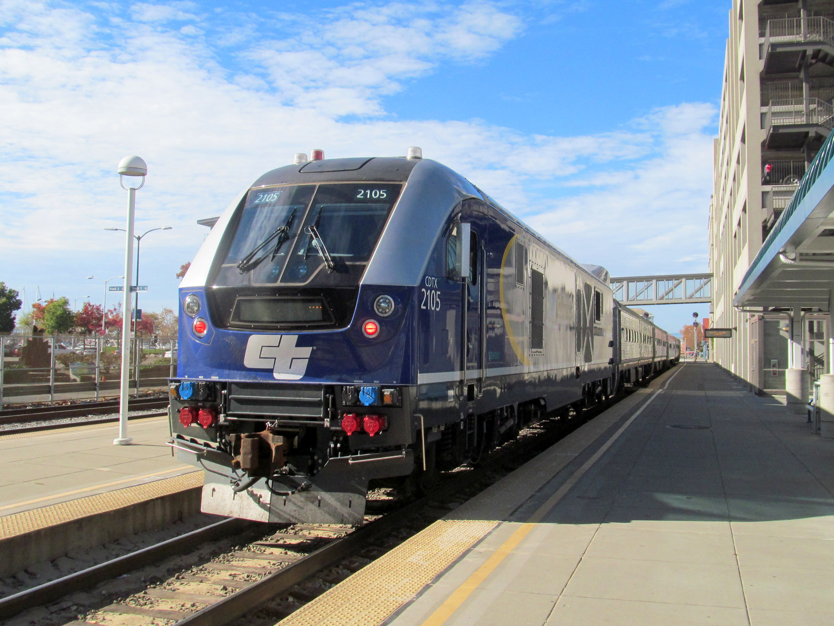 A new Charger locomotive pushes a San Joaquin out of Jack London Square station in November 2017